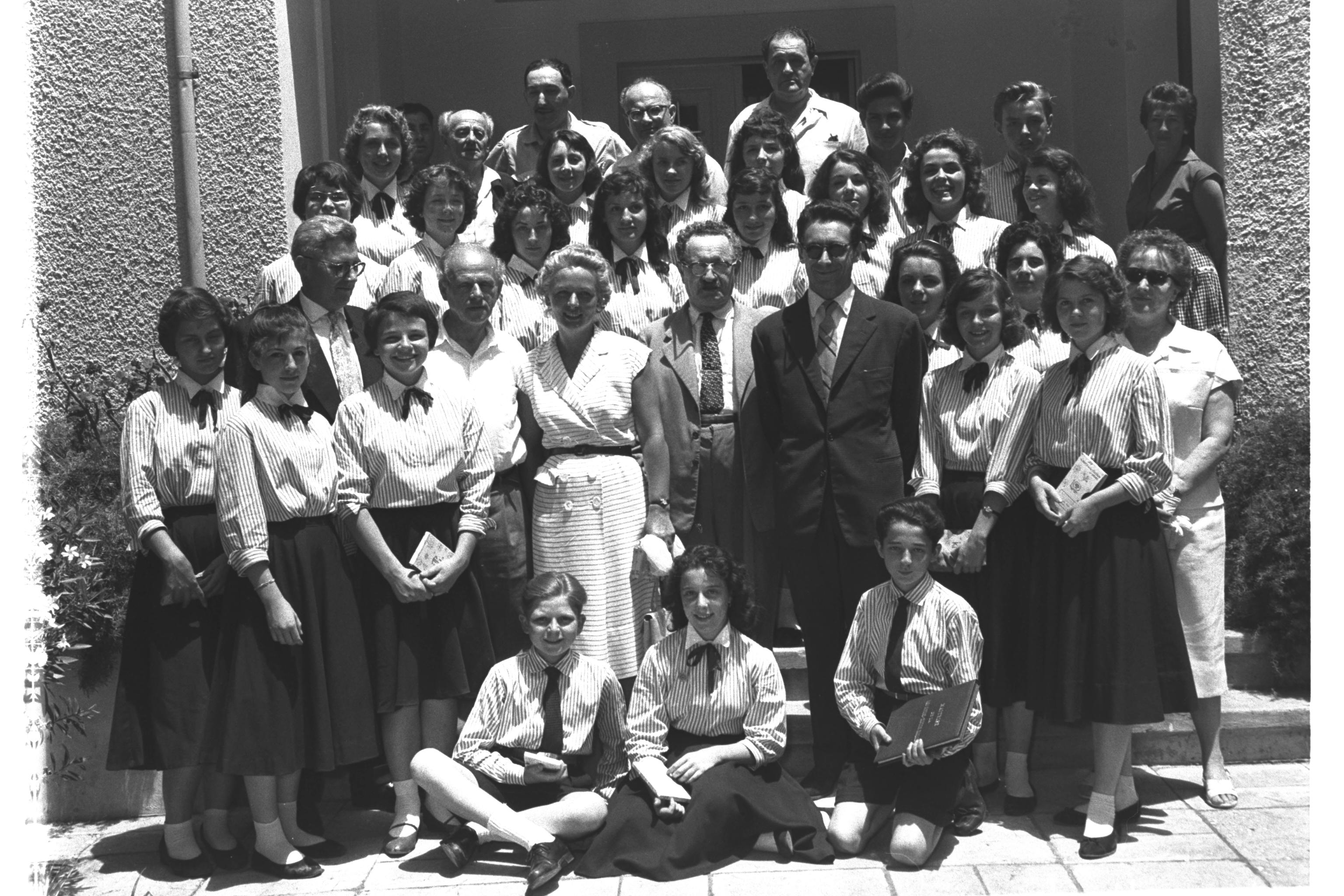 La Maitrise de Radio France with Yosef Sprinzak during a visit to Israel, 1958